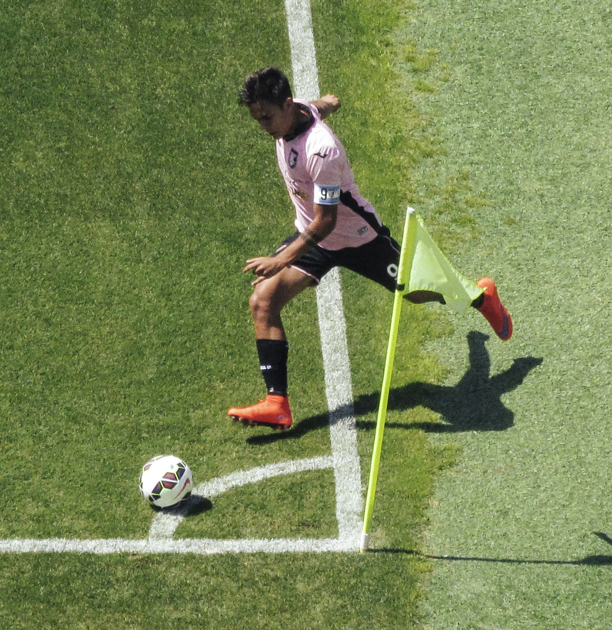 Paulo Dybala taking a corner for Palermo in 2015